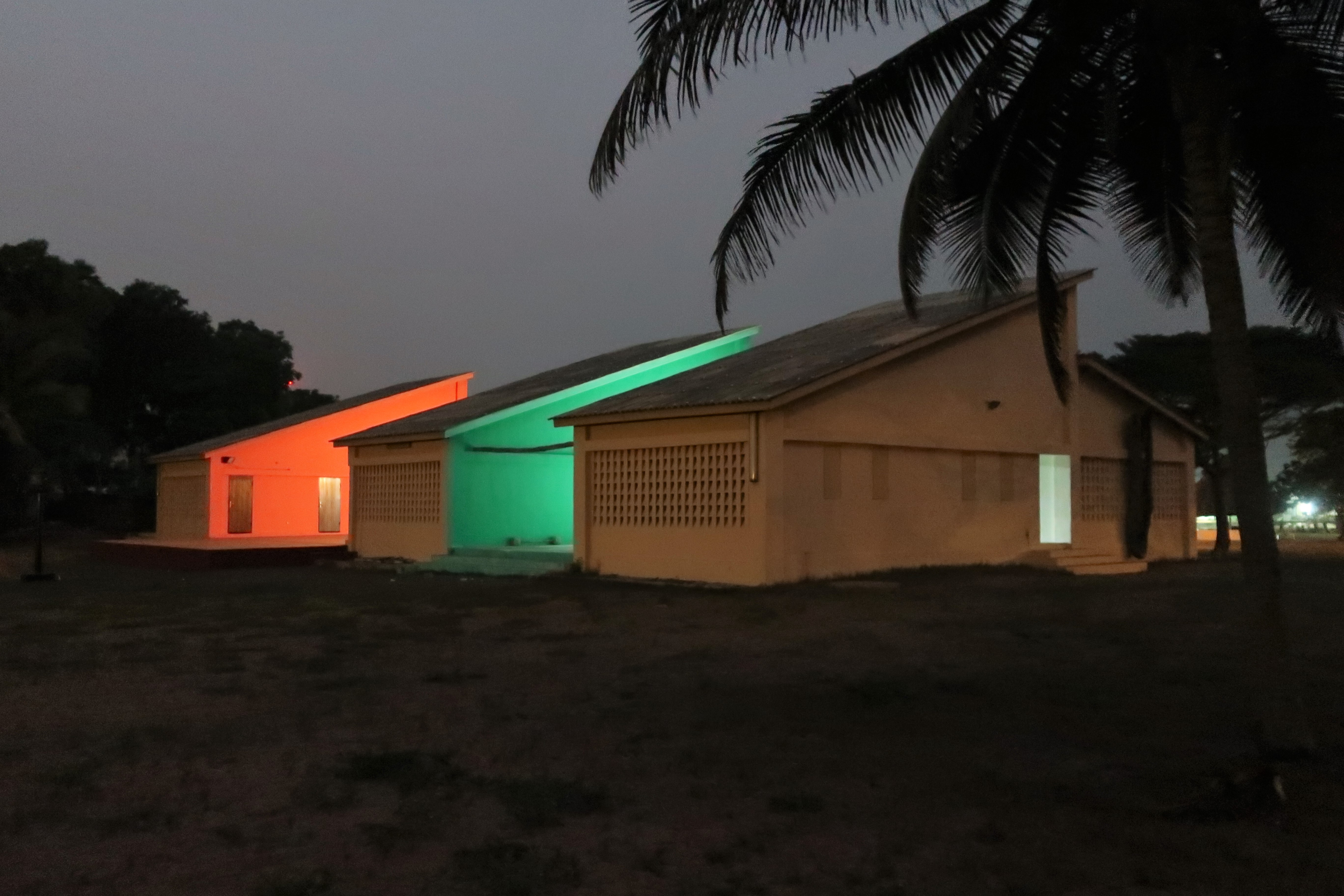 Villa Karo Finnish African Culture Center in Grand-Popo Benin, side buildings at night.